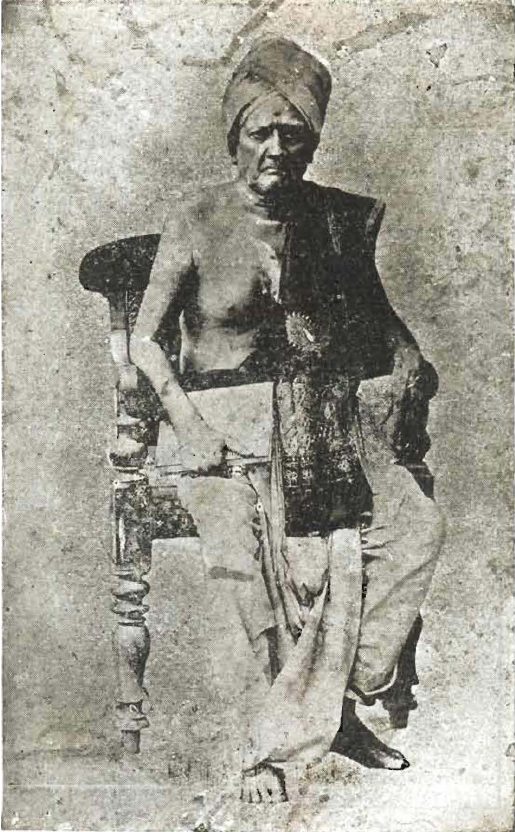 Subbarāma Dīkṣita or Subbarama Dikshitar (1839–1906), Carnatic music composer and author of the Saṅgīta Sampradāya Pradarśini.